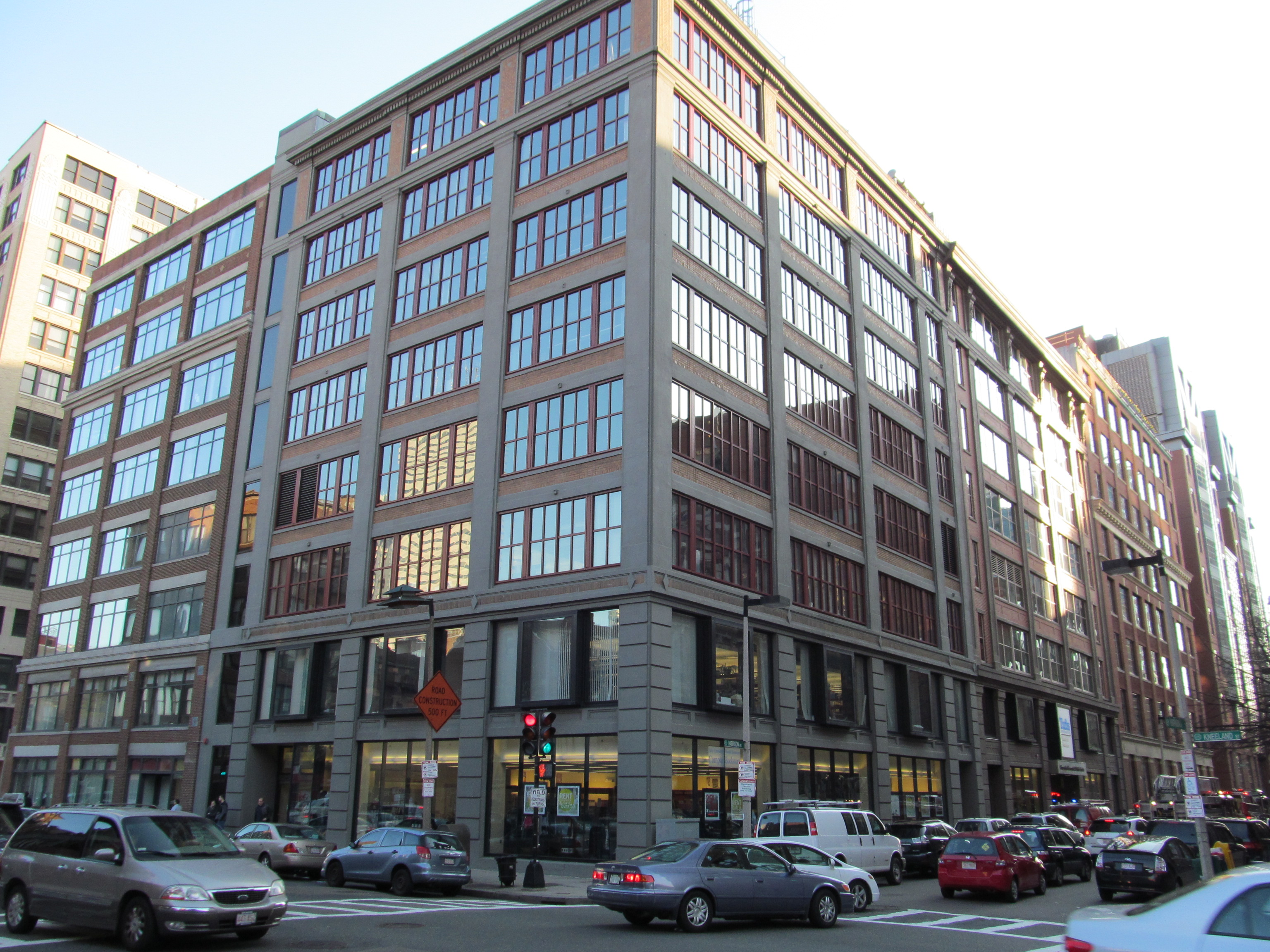 Arnold Wing, Tufts University School of Medicine, Boston Massachusetts